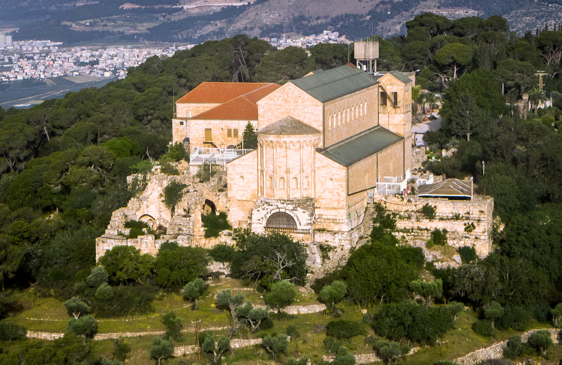 The church on Mount Tavor